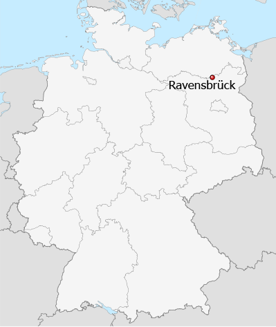 Map of position of Ravensbrück